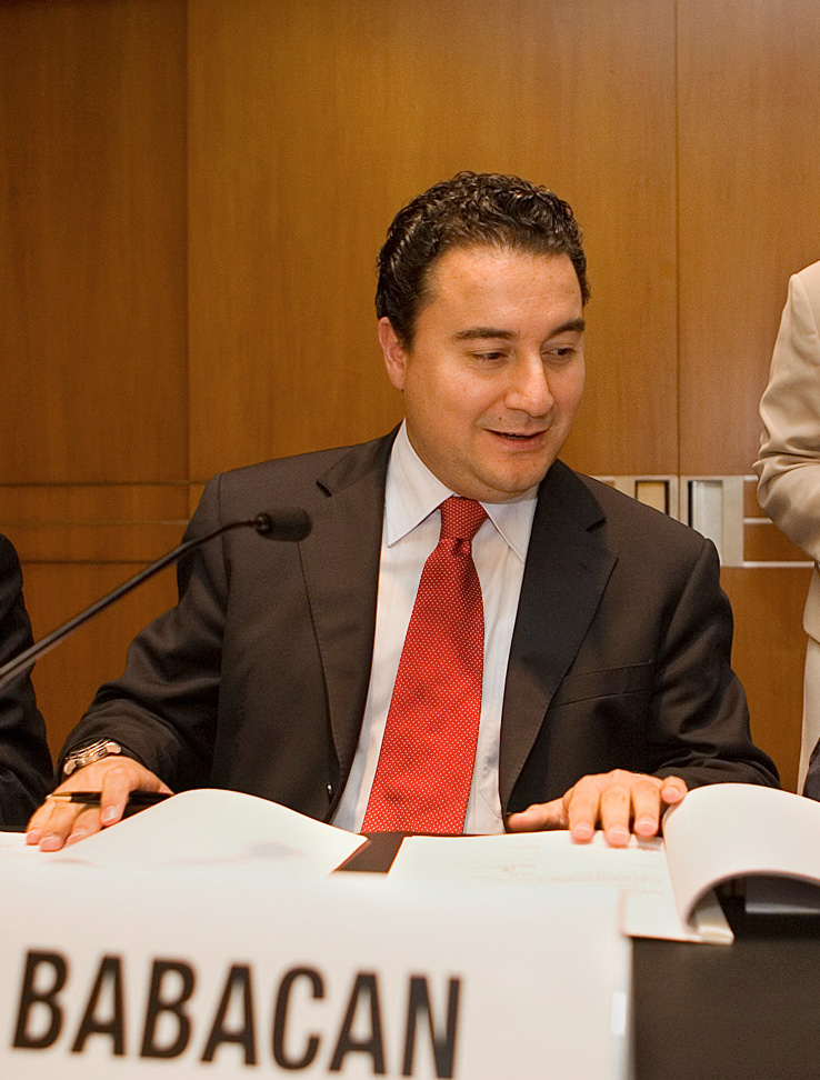 Ali Babacan, Turkey's Minister of Economy